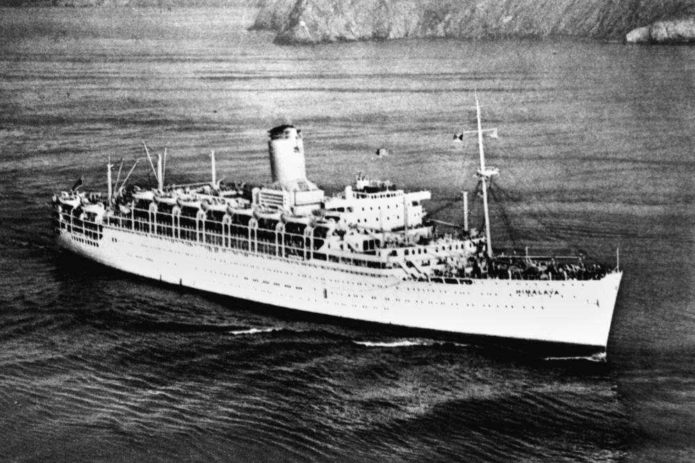 Himalaya (ship) The 'Himalaya' weighed 28,000 tons.